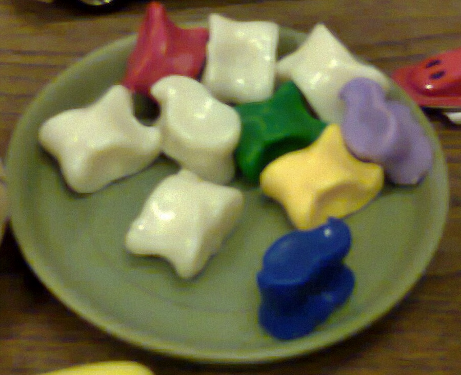 Plastic knucklebones in diferent colors.